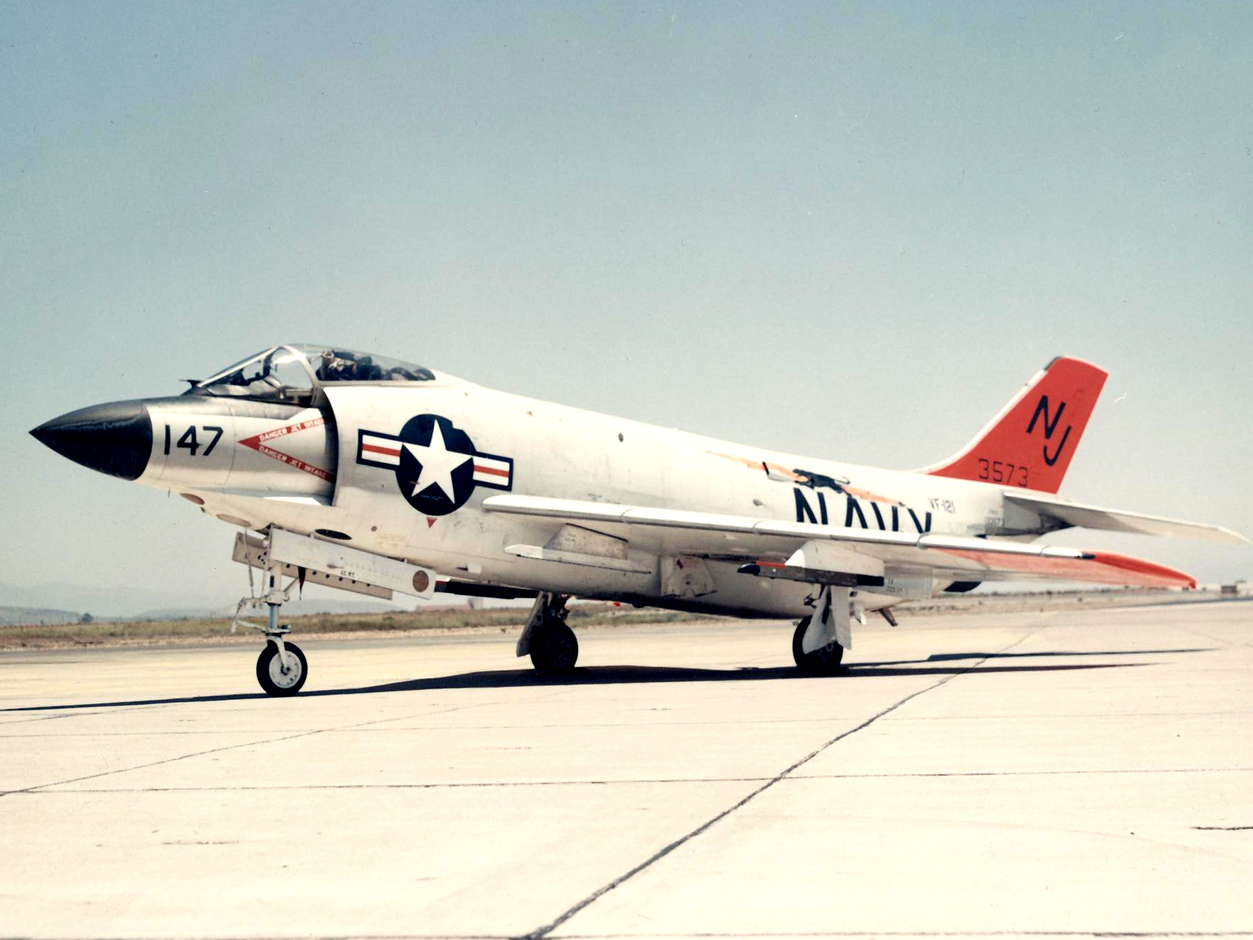 A U.S. Navy McDonnell F3H-2N Demon (BuNo 133573) of Fighter Squadron VF-121 "Peacemakers". In March 1956, VF-14 received the first operational F3H-2N fighters. Eventually replaced by the F4H/F-4 Phantom, the F3H/F-3 served until 1964. The F3H-2N 133573 was later modified as a test bed for the AN/APQ-50 radar for the F4H-1 Phantom II